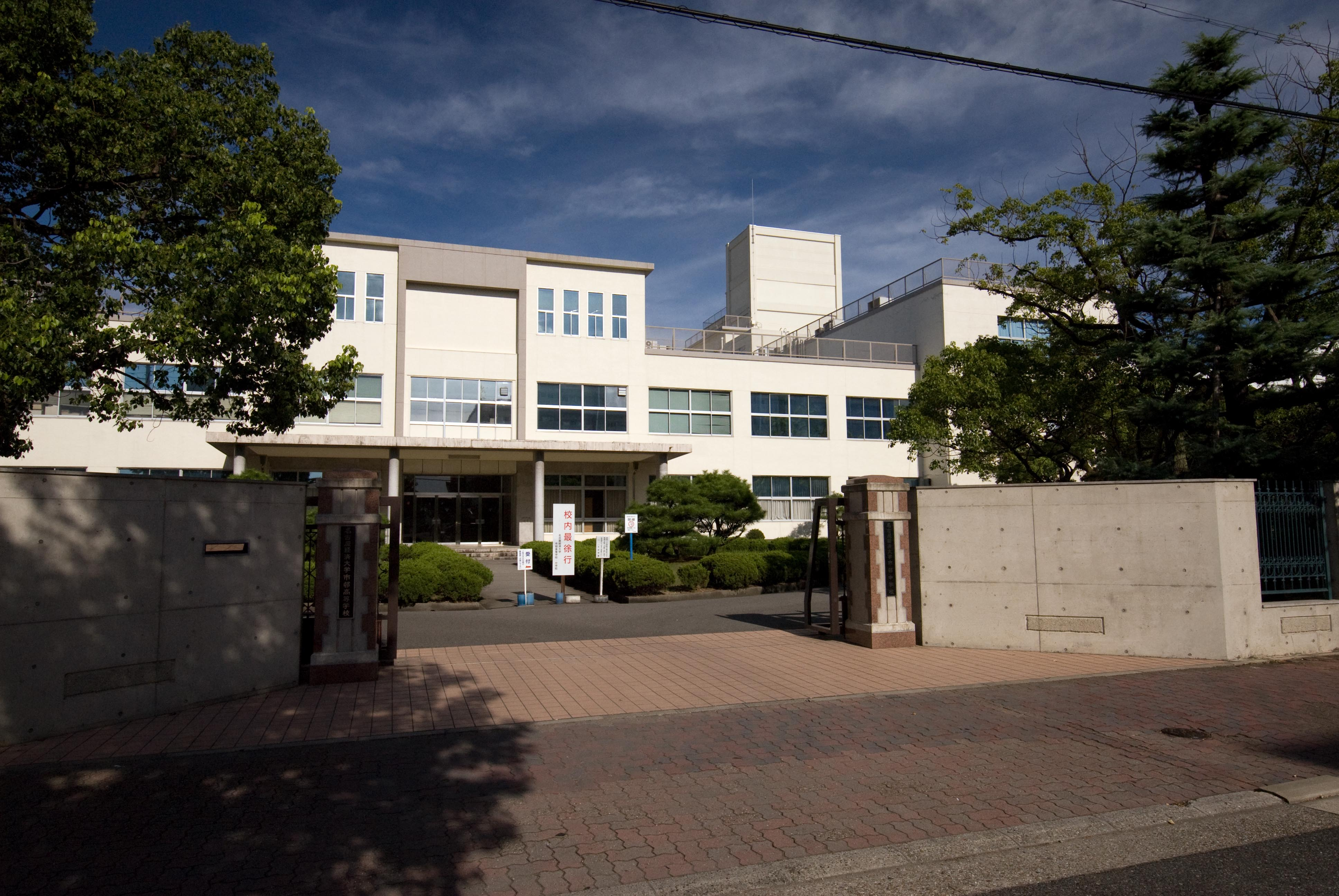 Nagoya Keizai Univ. Ichimura High School and Ichimura Junior High School